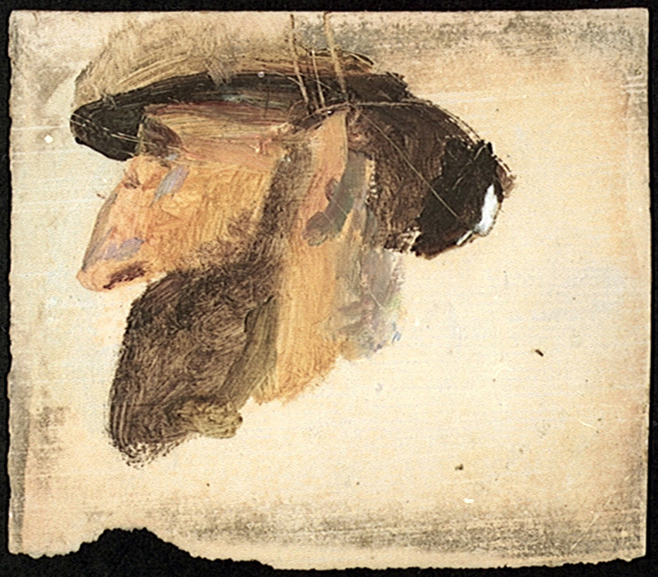 Profile of Lionel Percy Smythe (1839-1918) Smythe was Wyllie's older half-brother and the eldest of three illegitimate children that their mother, Katherine Benham, a singer, had with Percy Smythe, 6th Viscount Strangford (though the family always claimed a marriage). He was born in London on 4 September 1839 and spent his early years in France, where his younger sister and brother were born, though the family returned to London in 1843 and lived in Gloucester Crescent, Camden. Smythe was educated at King's College School and partly in France, which was where his mother met William Morrison Wyllie, an artist studying in Paris. They married and had two further sons, W.L.Wyllie himself being the first, born in London in 1851, and then Charles William, also a painter. All continued to spend holidays at Wimereux in Normandy, with Smythe and then W.L. Wyllie both attending the Heatherley School of Fine Art in London. Smythe - who encouraged his much younger Wyllie brothers- painted rural landscapes, genre and marine subjects, people and animals and was eventually associated with a group called the 'Idyllists'. He exhibited at the Royal Academy from 1863 (and became a full member in 1911) and the Royal Institute of Painters in Watercolours from 1881 (member, 1880), though he transferred his loyalty to the Royal Watercolour Society in 1892 (member, 1894). Smythe, his wife and three children settled at Wimereux in 1879, in a Napoleonic fortification, until this was destroyed by coastal erosion, after which they moved in 1882 to the more inland Château d'Honvault between Wimereux and Boulogne. The surrounding countryside and rural life remained his inspiration to his death.